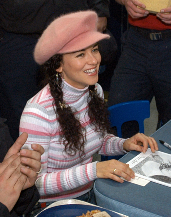 040416-N-6187M-002 Norfolk (April 16, 2004) - Country music entertainer Sherrié Austin receives a round of applause after singing a song for crewmembers aboard the nuclear powered aircraft carrier USS Enterprise. The carrier is currently pier-side after returning from a six-month deployment.